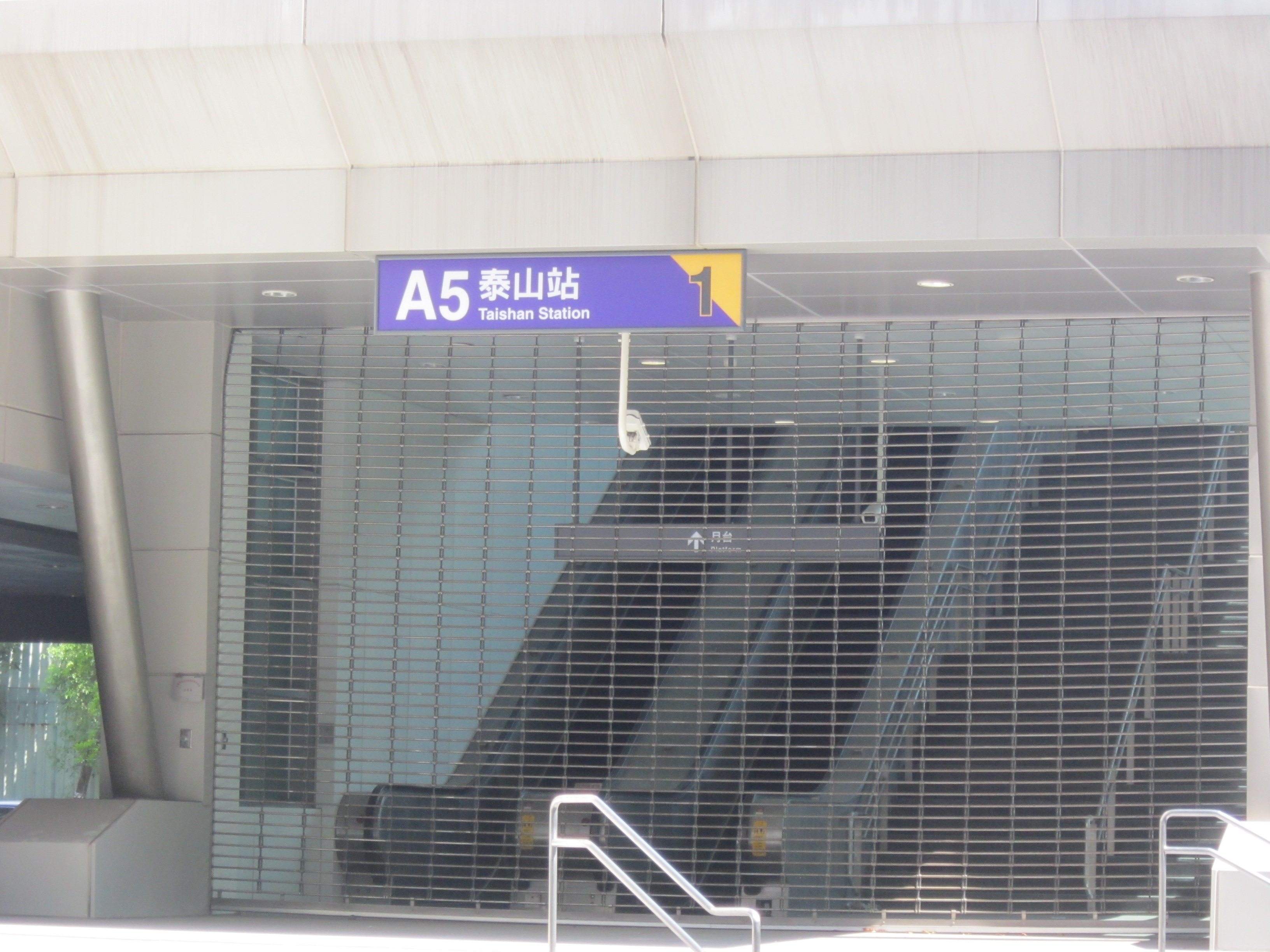 Taoyuan International Airport MRT Taishan Station_1